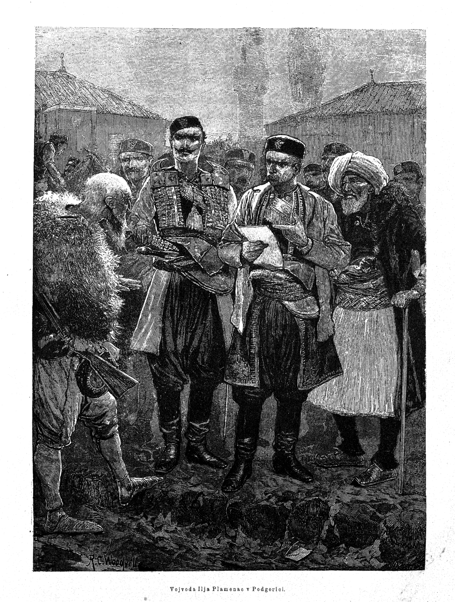 Woodcut by Richard Caton Woodville, Jr. depicting vojvoda Ilija Plamenac entering Podgorica in the aftermath of the Montenegrin–Ottoman War in 1879